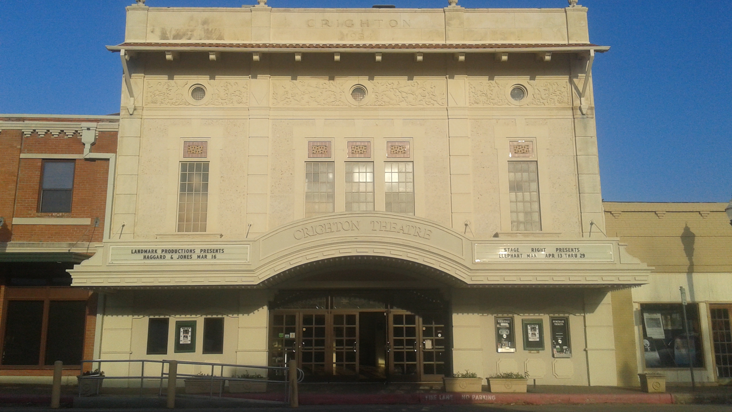 Crighton Theatre in downtown Conroe, Texas.